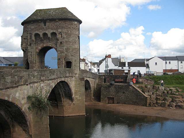 Gatehouse on Monnow Bridge Built around 1270, the gatehouse has served as a toll-house, guard room, gaol and dwelling.